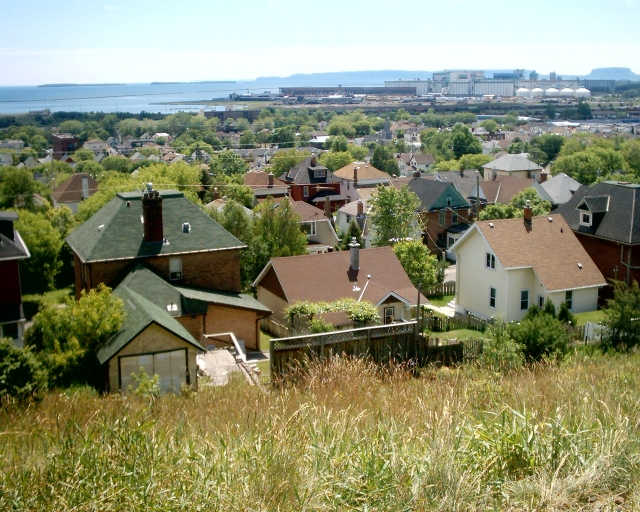 View of Thunder Bay